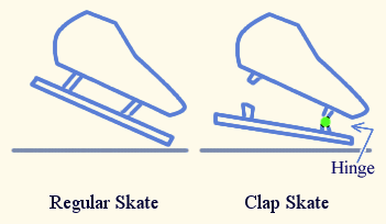 Clap skate. Regular ice skate and clap skate compared. I created this image for Wikipedia and hereby place it in the Public Domain. Contact me if you want the original XCF file. XCF is GIMP's original file format and preserves such things as layers and paths.